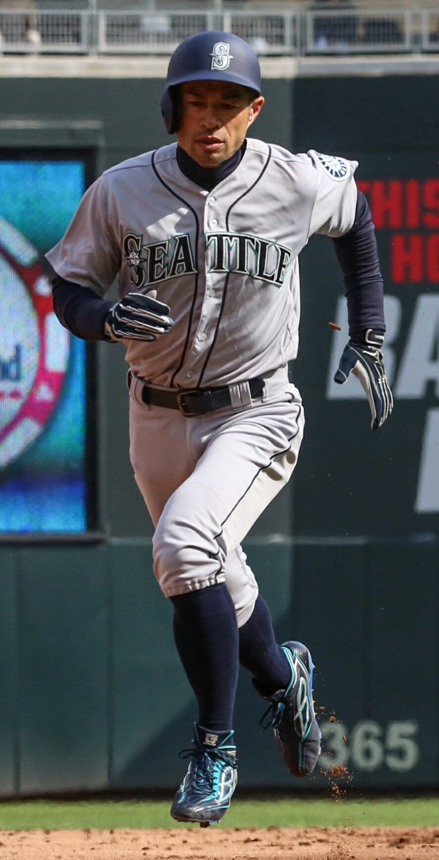 Ichiro Suzuki in 2018